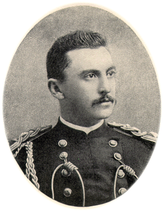 Captain Buckey O'Neill, Troop A, 1st United States Volunteer Cavalry (c. 1898)